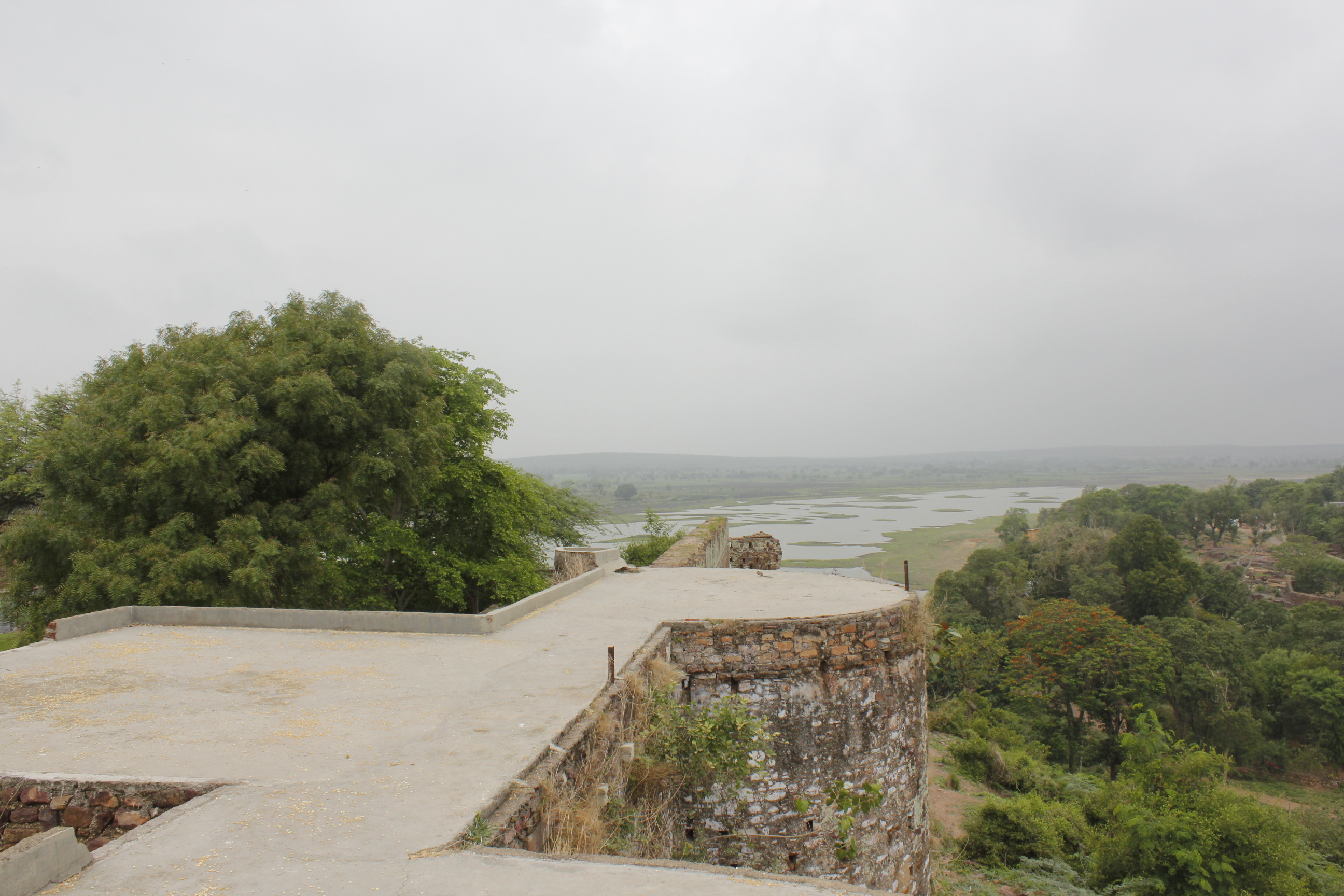 Jiran Ki Gadhi